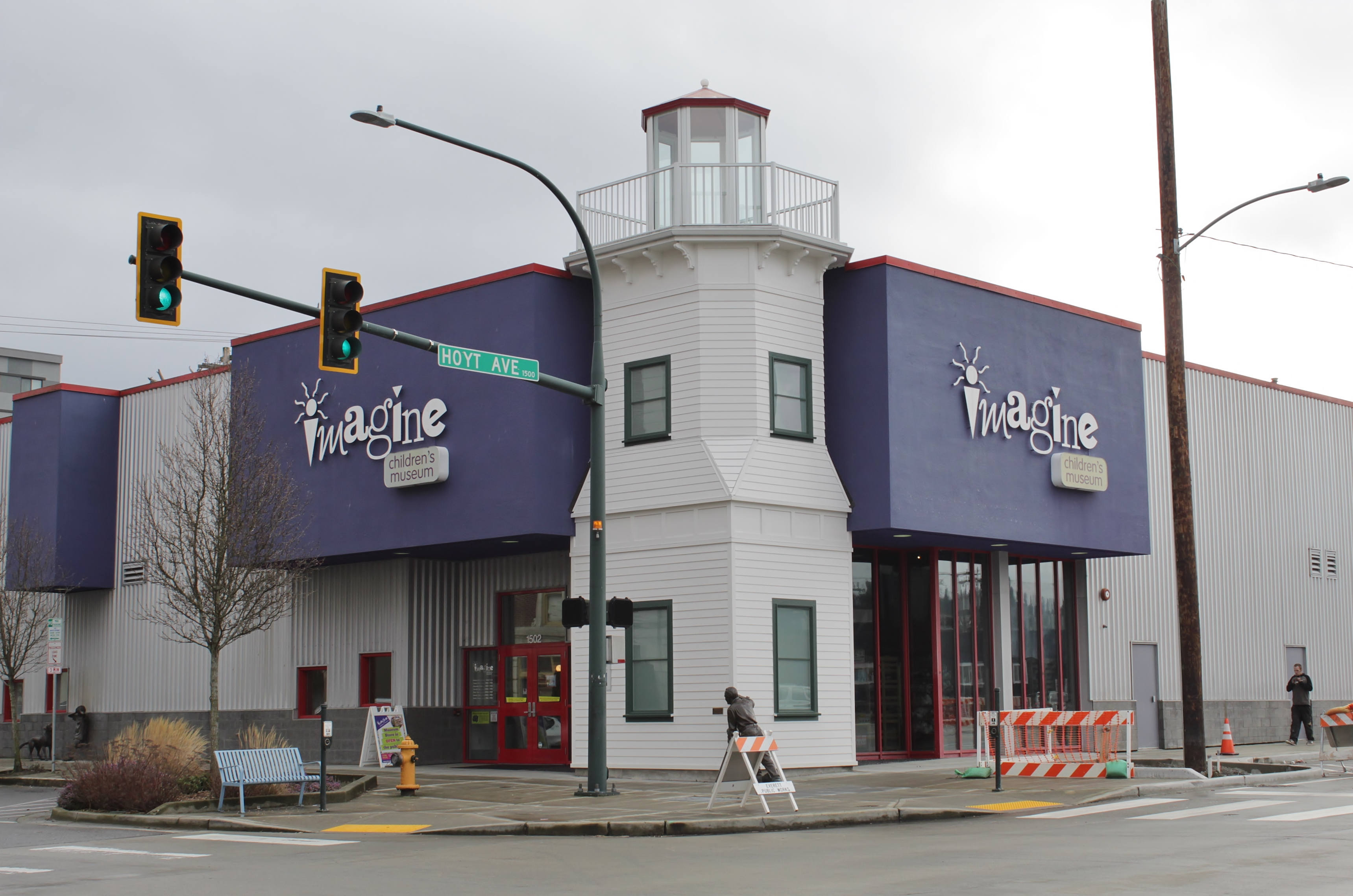 The Imagine Children's Museum in downtown Everett, Washington, located inside a former bank branch.